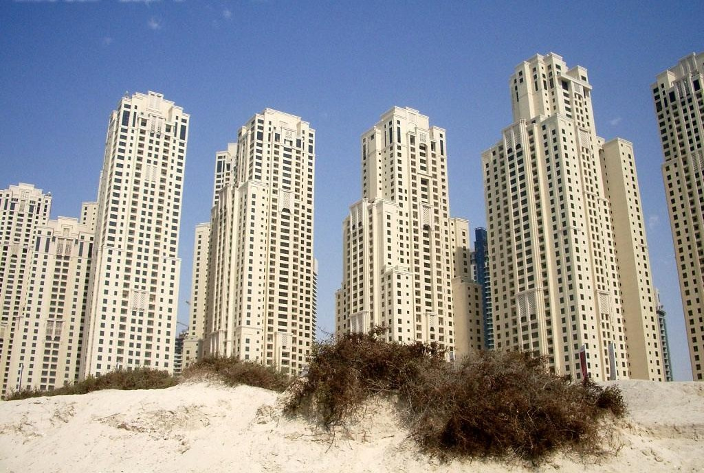 This is a photo of Jumeirah Beach Residence, a major sub-development in Dubai Marina in Dubai, United Arab Emirates on 15 June 2007. The foreground is sand from the beach.